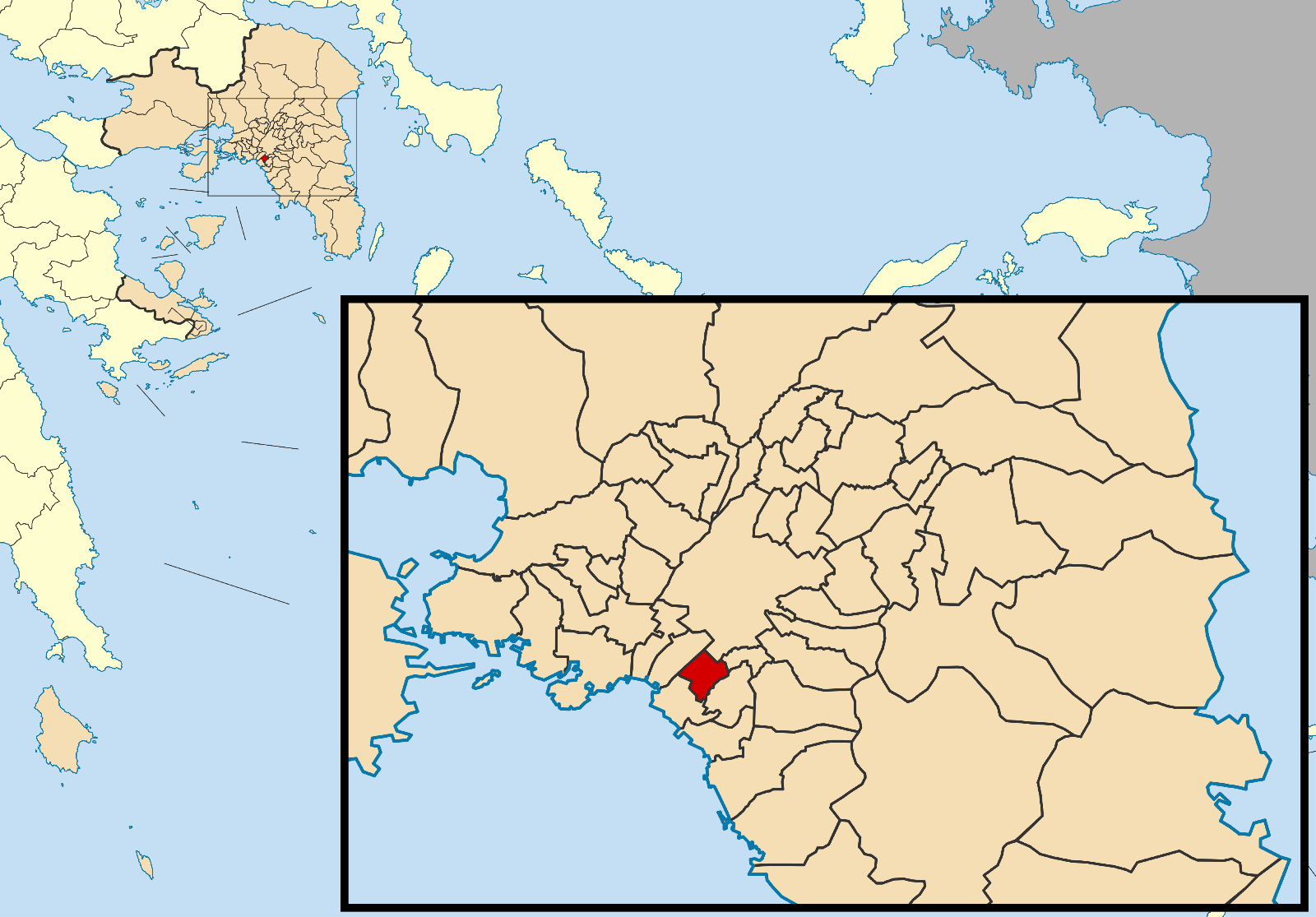 Locator map for Nea Smyrni municipality in Greek region Attica (2011)